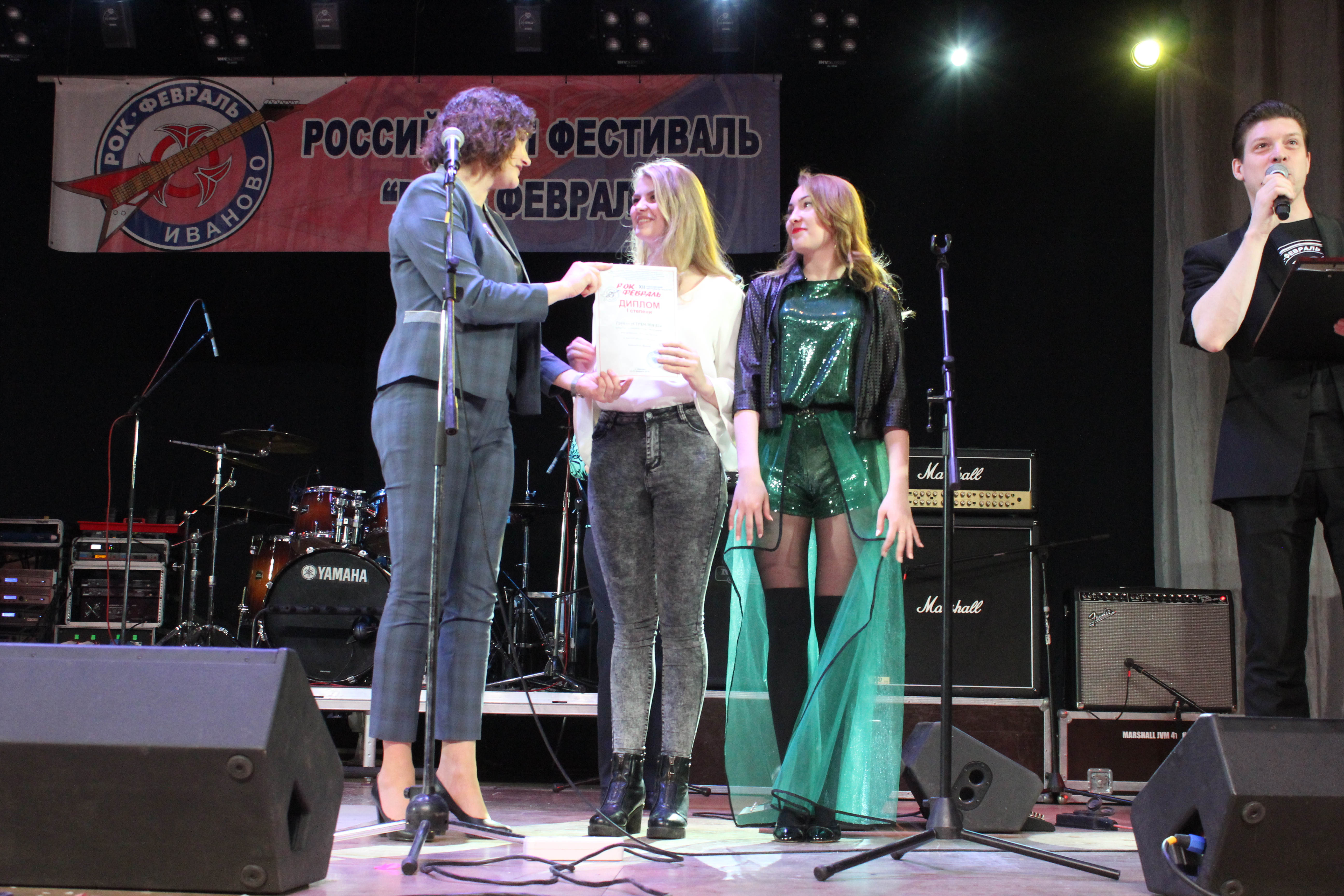 Вручение дипломов в номинации Вокал Анастасии Охлопковой и группе "Стремление".